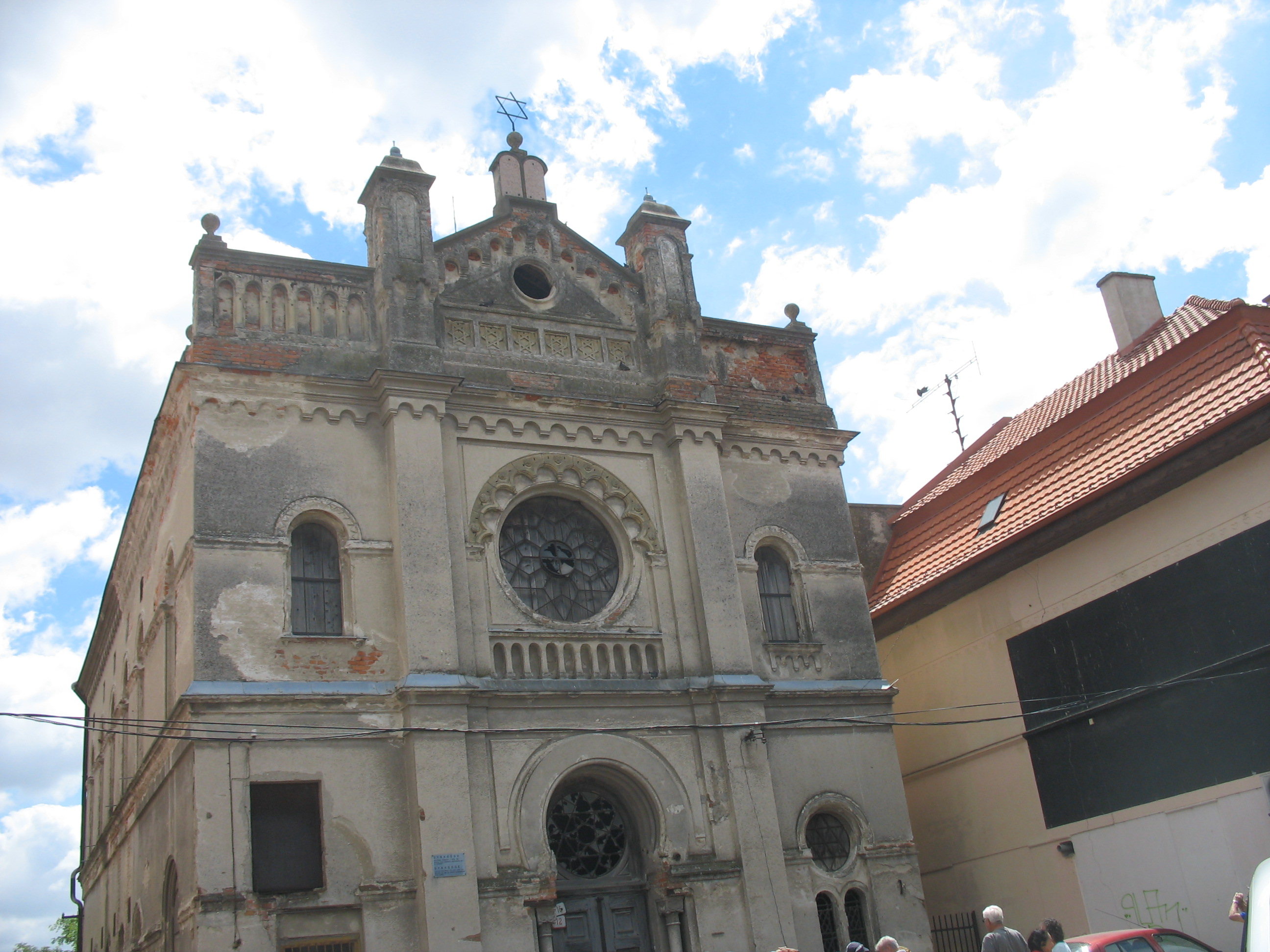 synagogue in Senec, Slovakia